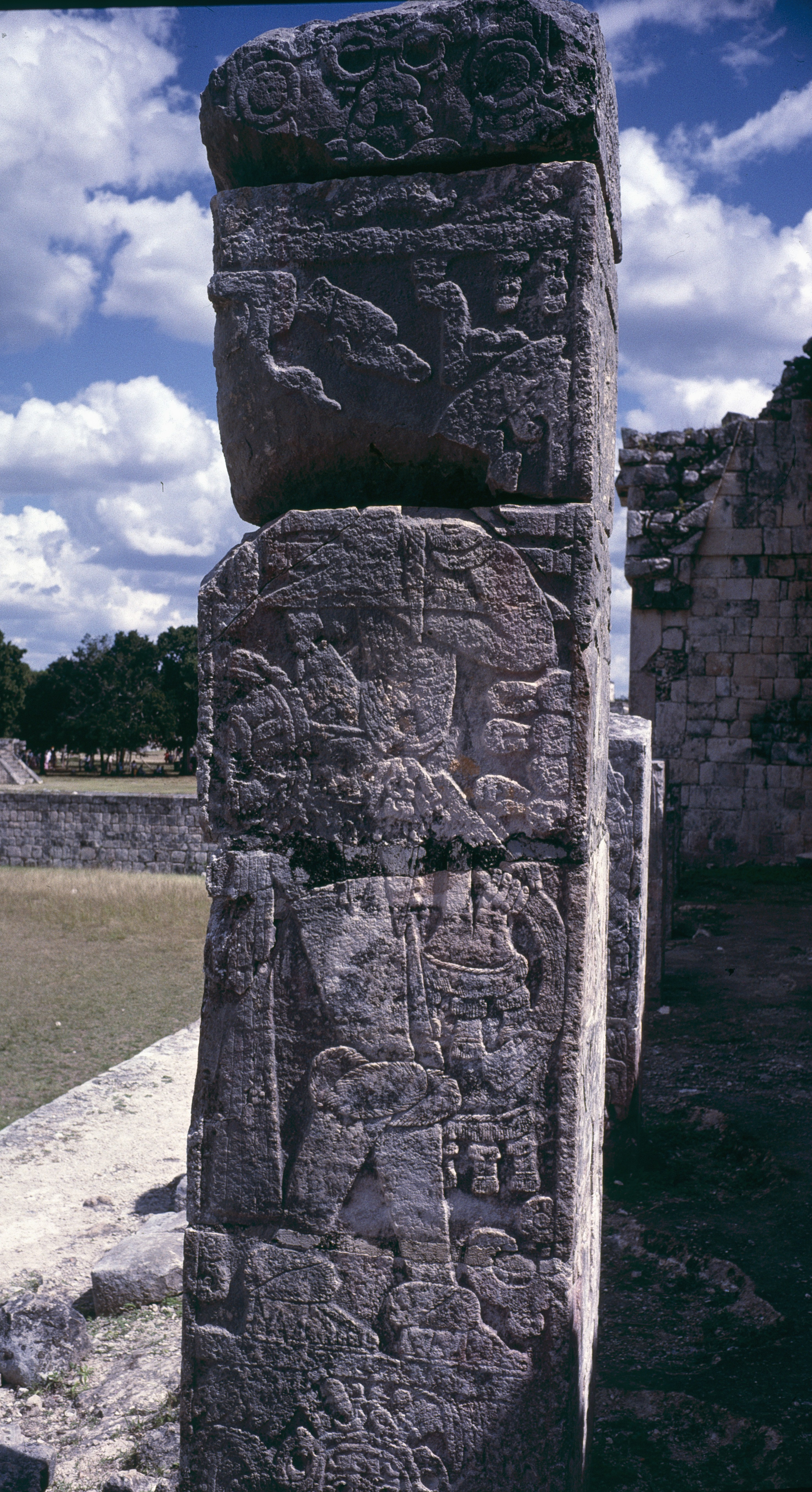 Chichén Itza, Great Ballcourt, South Temple, Pillar